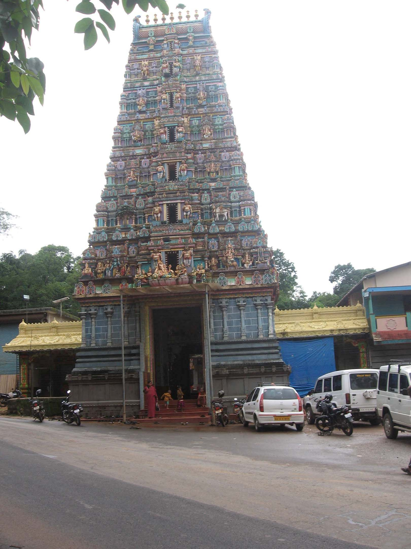 Beautiful temple of South India